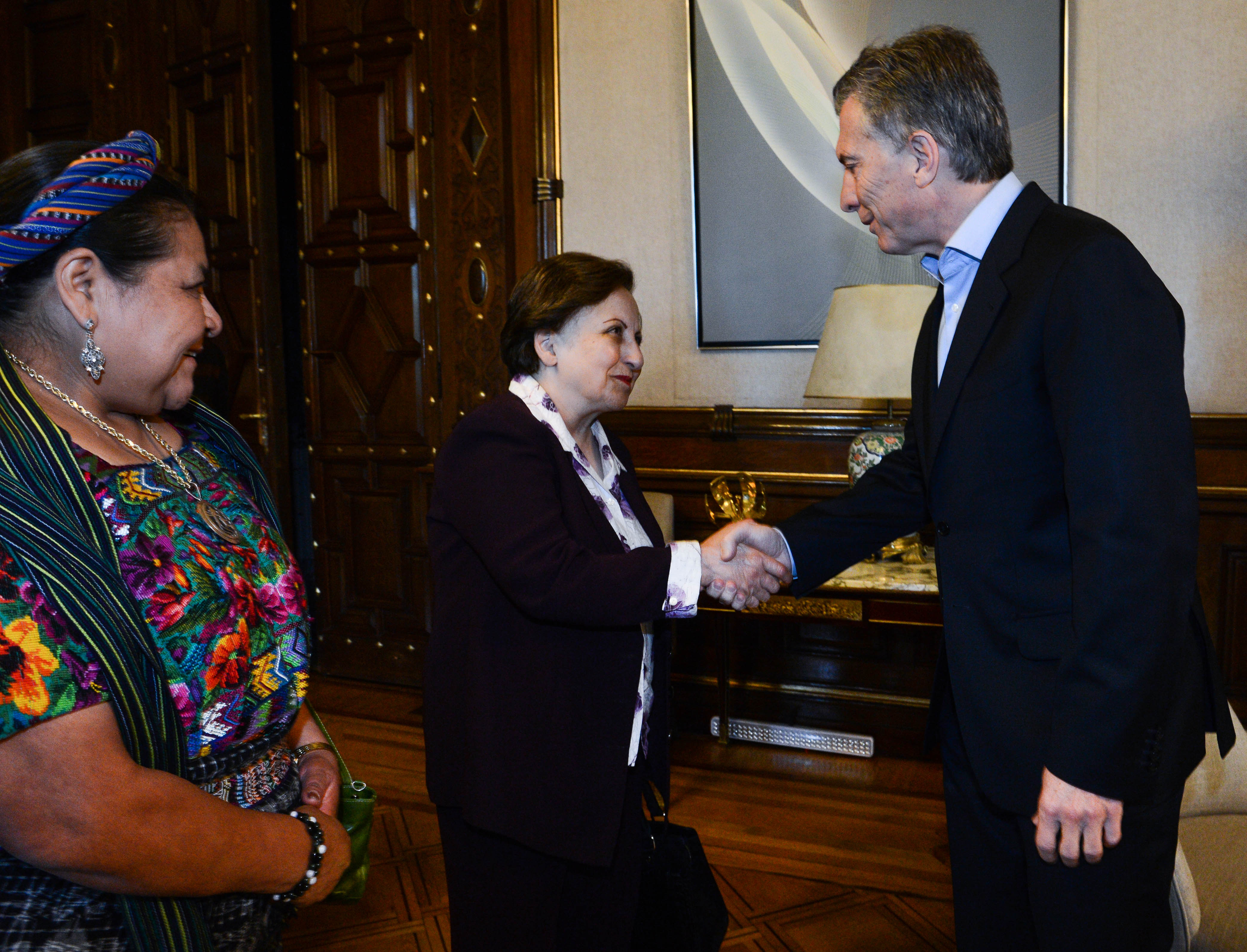 Argentina's president Mauricio Macri greeting Shirin Ebadi